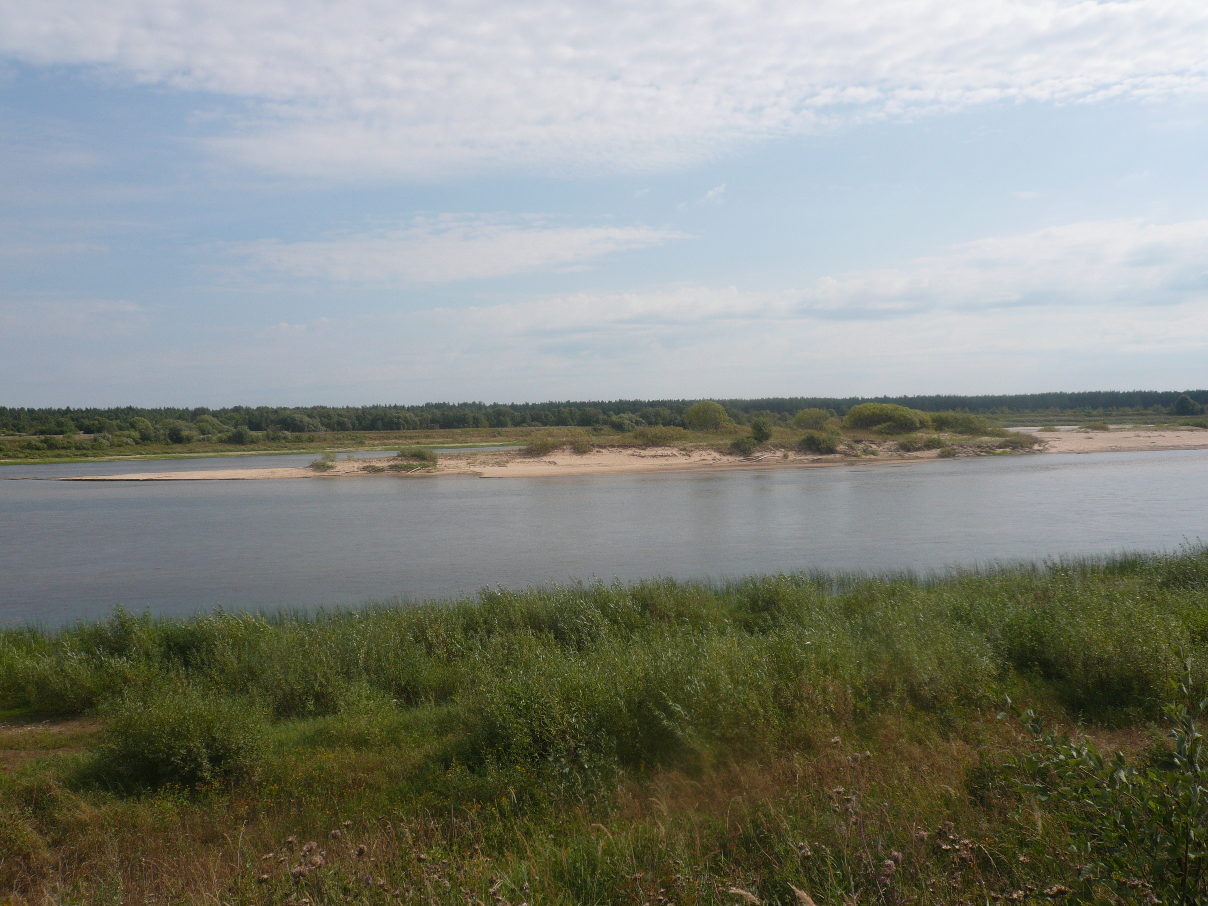 The river Vaga nearby village Rovdino (Arkhangelsk Oblast)